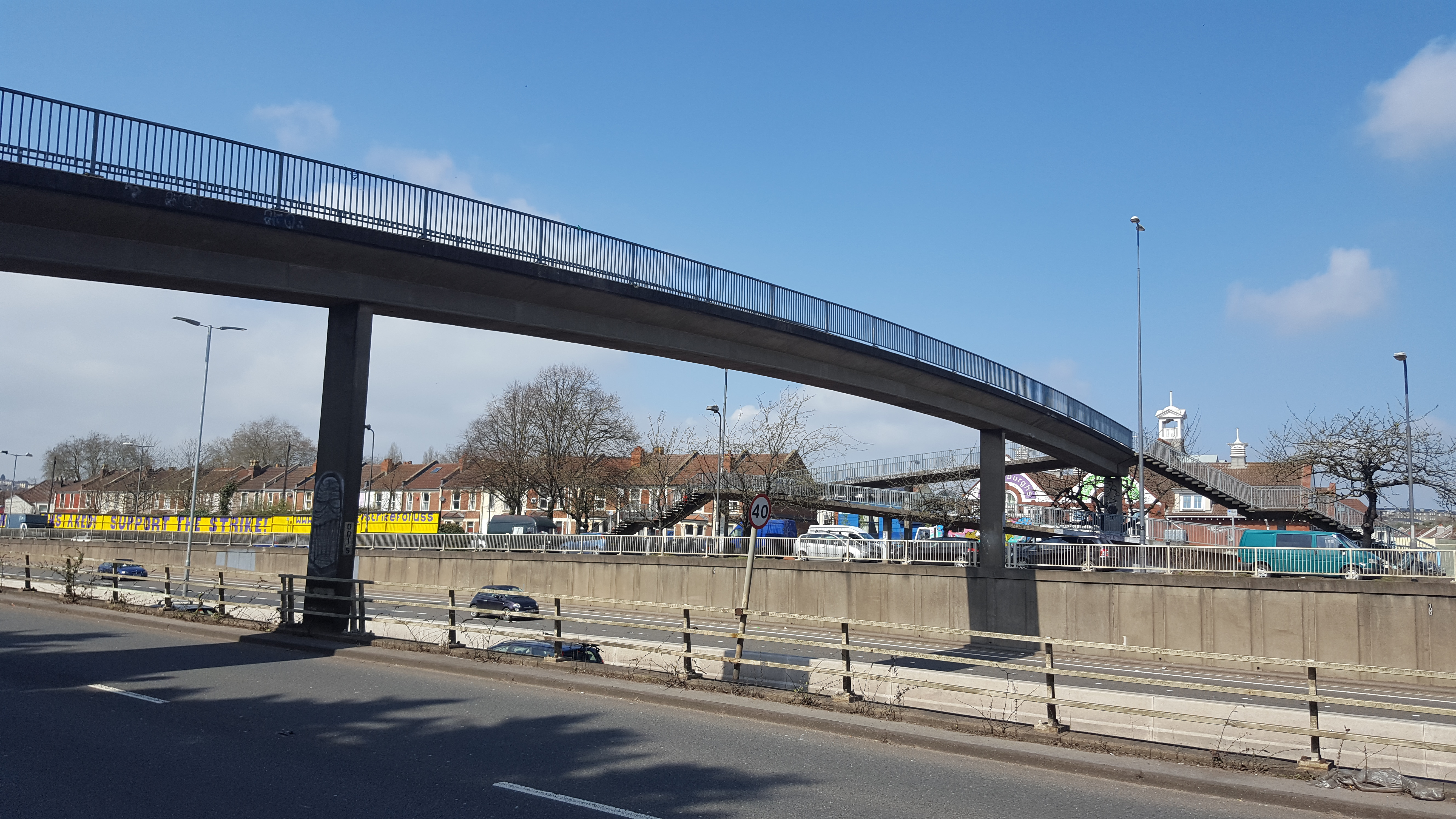 Footbridge over M32 between Baptist Mills with St Werbergh's, Bristol - April 2018